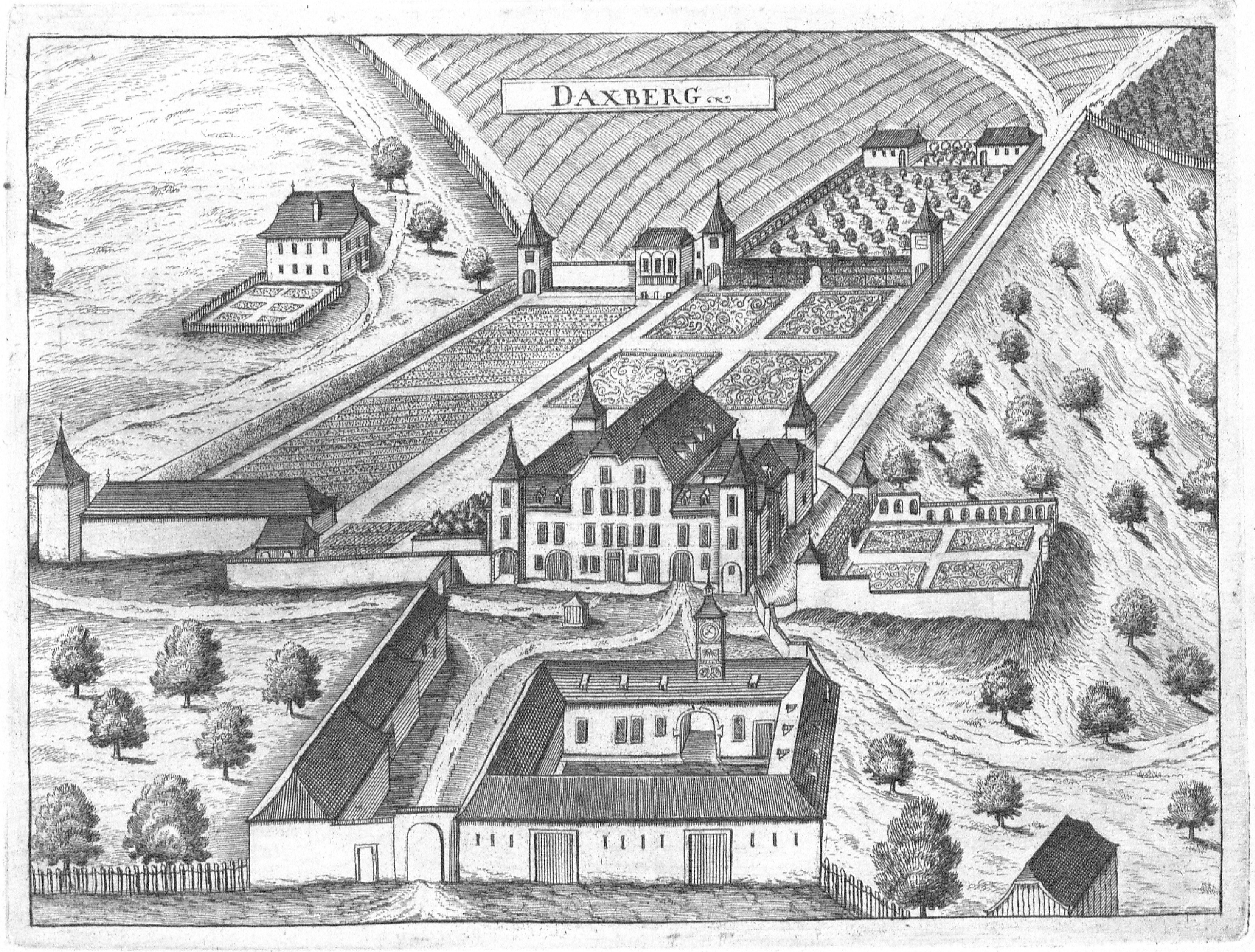 Engraving, view of Dachsberg castle, Upper Austria